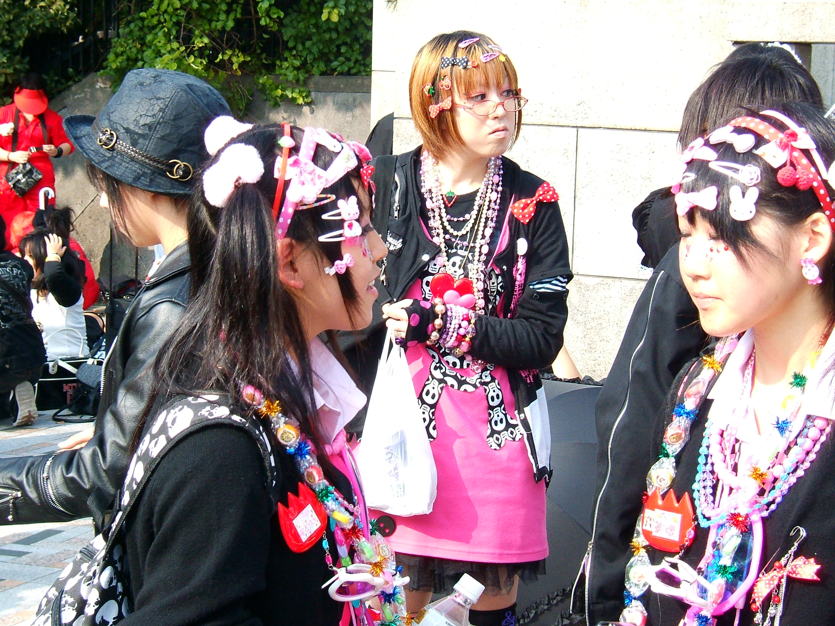 Gathering near Harajuku Station, Tokyo, on a sunny Sunday afternoon